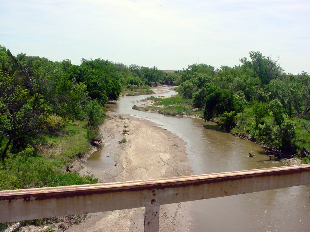 Photo of the Smoky Hill River from the stream gauge station located at 38.711111° N, Longitude: 97.571389 W, Horizontal Datum: NAD27. Photo captioned "Looking downstream, stage 3.17 ft".